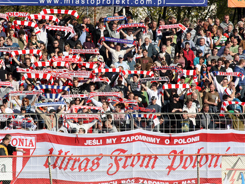 Fans of speedway club Polonia Bydgoszcz durnig match Polonia vs. Unibax Toruń (April 19th, 2009)